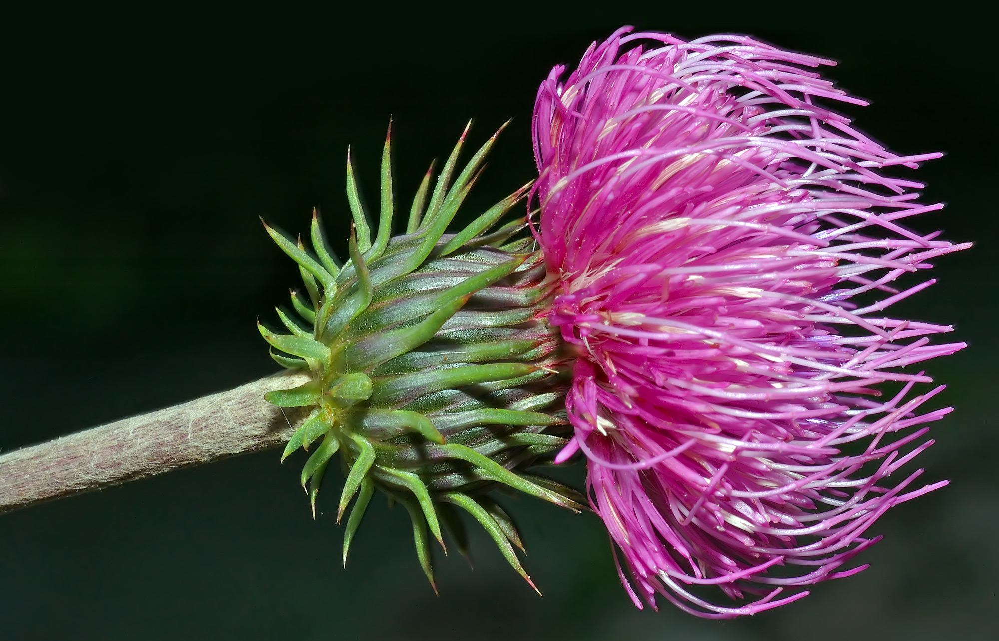 This image shows an Alpine thistle (Carduus defloratus).